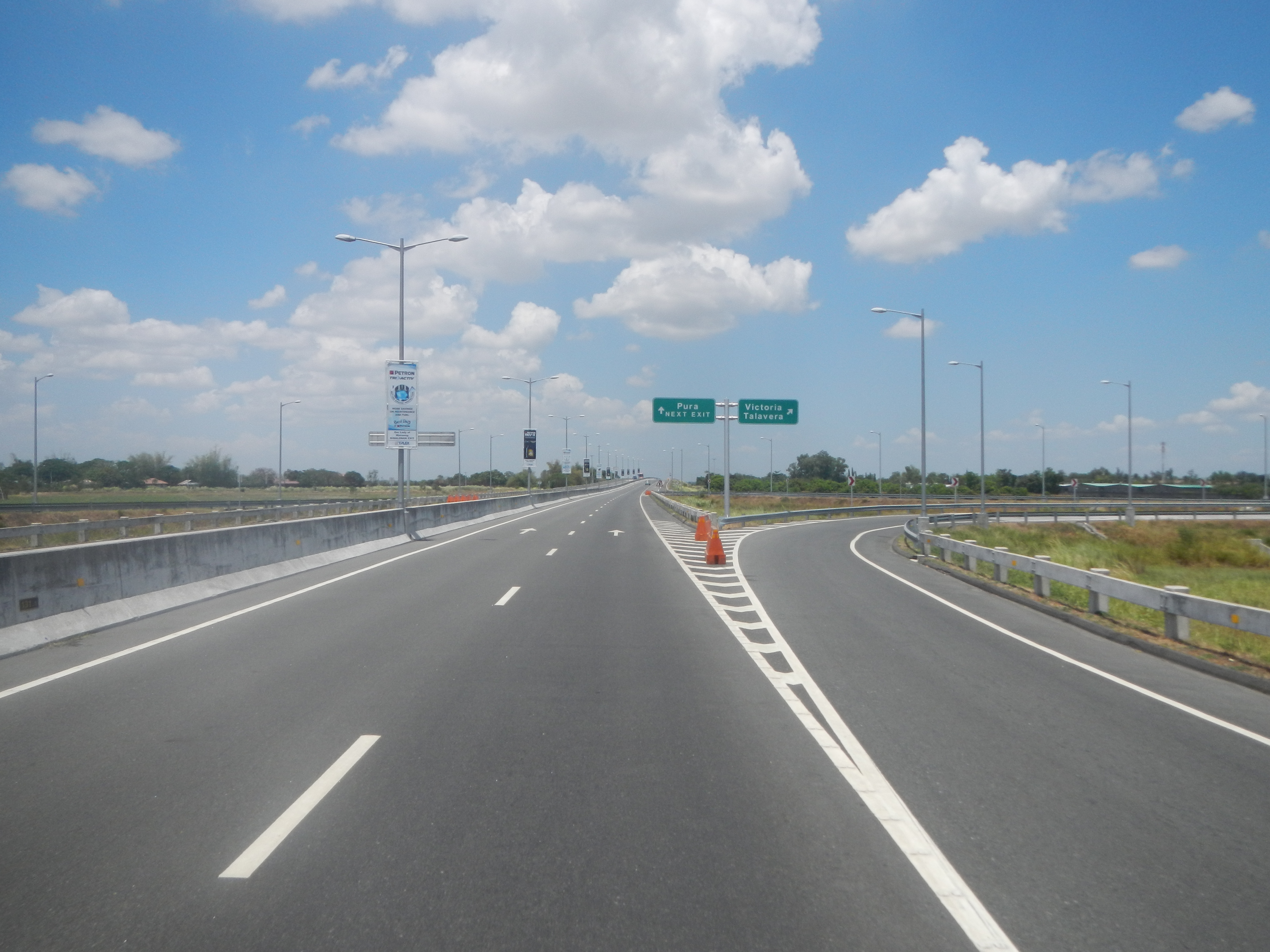 Tarlac–Pangasinan–La Union Expressway (Tarlac City-Victoria-Pura Segment) of the Tarlac–Pangasinan–La Union Expressway, Interchange (road) Trumpet interchange; Tarlac City - Pura Segment October 25, 2013, Opening the Tarlac City - Pura segment of the TPLEX Tarlac City-Victoria, Tarlac-Pura, Tarlac section; Barangay Amucao,Tarlac City is the southern terminus of TPLEX, Exits connected to Subic-Clark-Tarlac Expressway Section 1A, Barangay Villa Bacolor, Tarlac City, to Barangay Baculong, Victoria, Tarlac; this exit connects to Tarlac-Victoria Road, Westbound goes to Tarlac City, Eastbound goes to Barangay Baculong and to Victoria, Tarlac, then Barangay Singat, Pura, Tarlac this exit connects to Gerona-Guimba Roadm Westbound goes to Gerona, Eastbound goes to Guimba, Talugtug, Muñoz, San Jose and Cagayan Valley Region).